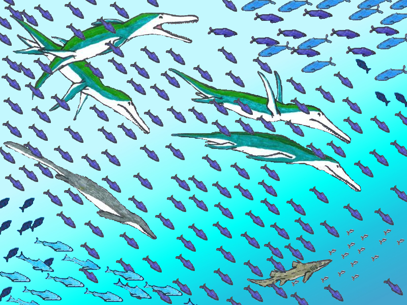 The plesiosaur Trinacromerum and the mosasaur Clidastes are preying on fish in the Late Cretaceous.